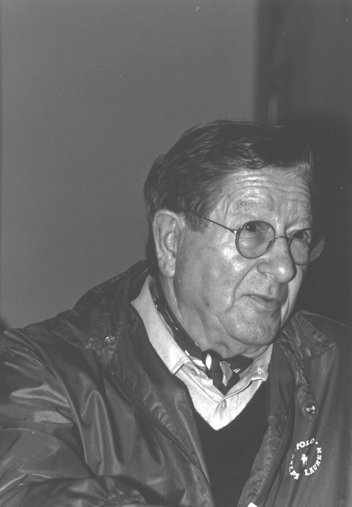 Jazz Composer/Producer Teo Macero, May 11, 1996 at the first Miles Davis Conference held at Washington University in St. Louis, MO.